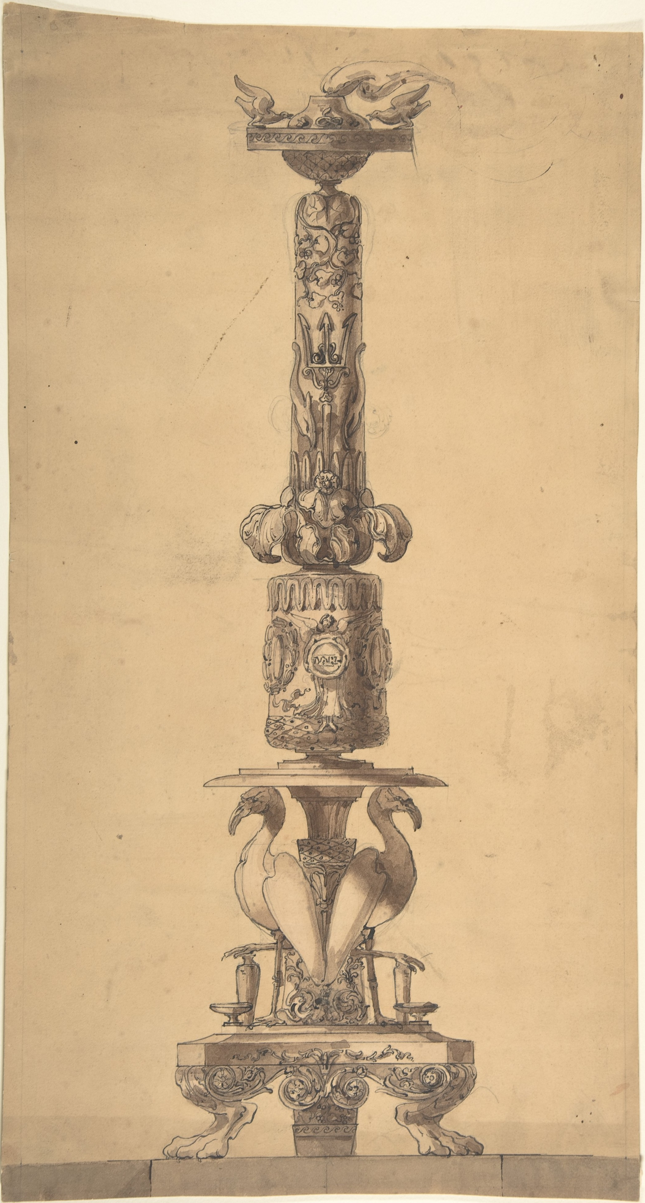 Drawing ; Ornament and architecture; Drawings